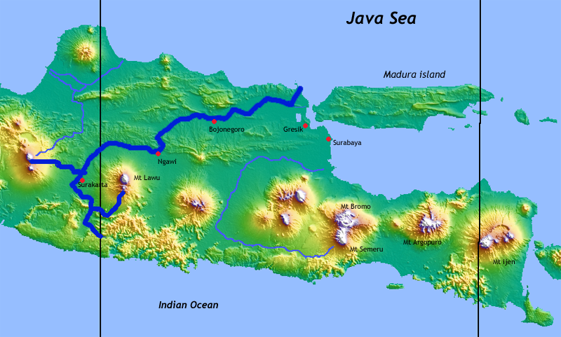 Topography map of Bengawan Solo basin in eastern Java.